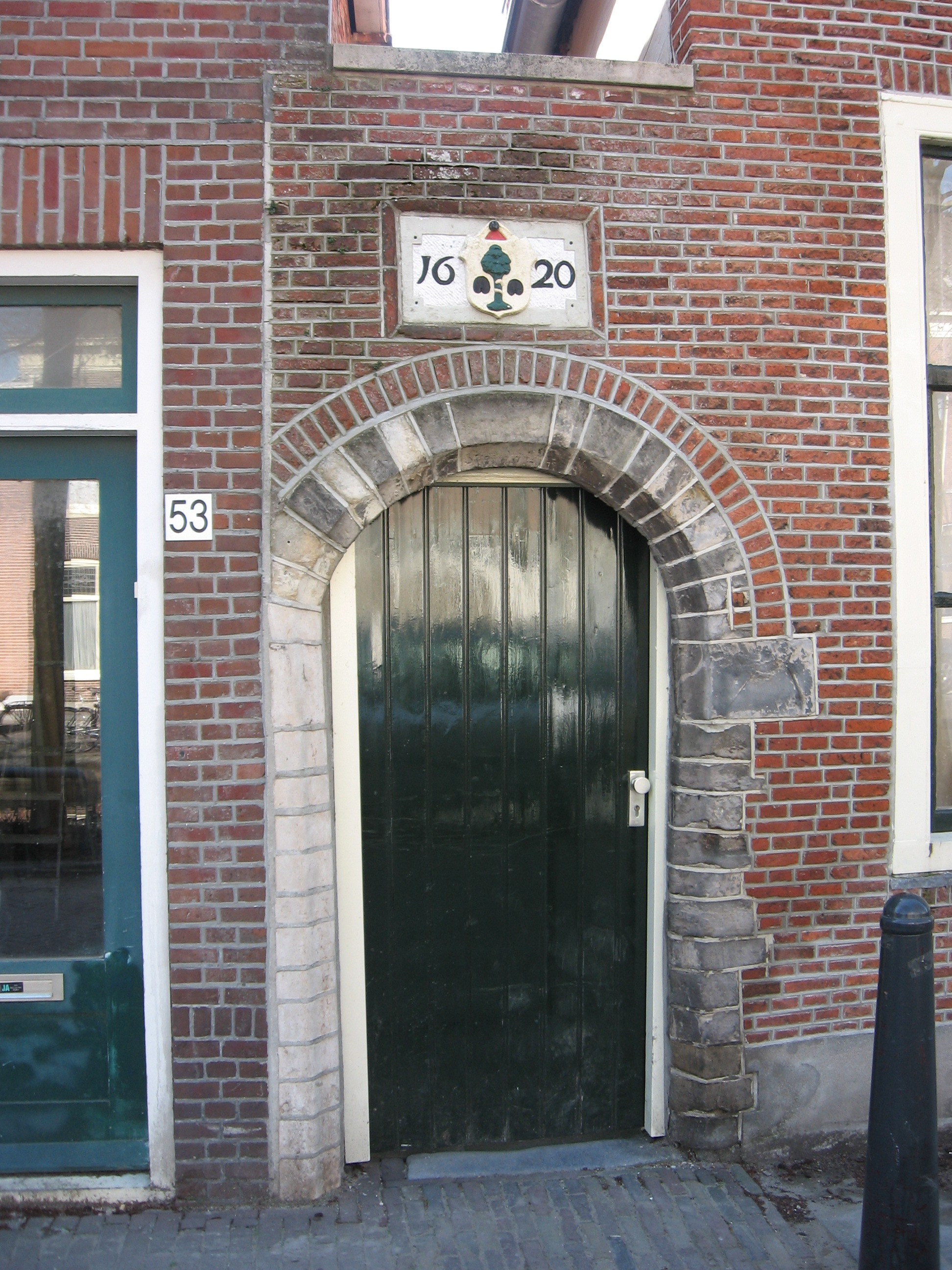 Rijksmonument, Delft - Achterom 47-53 (poort).jpg